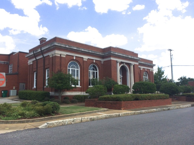 Built as one of the Carnegie libraries, it is now the Troy, Alabama City Hall.